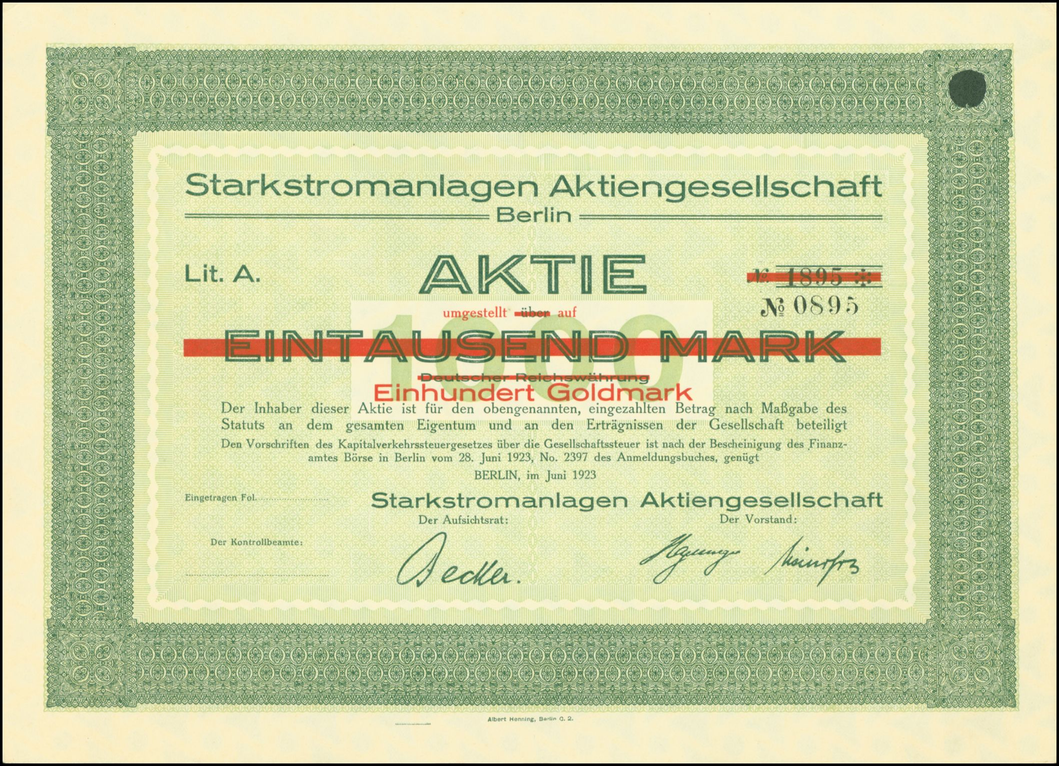 Share of the Starkstromanlagen AG, issued June 1923